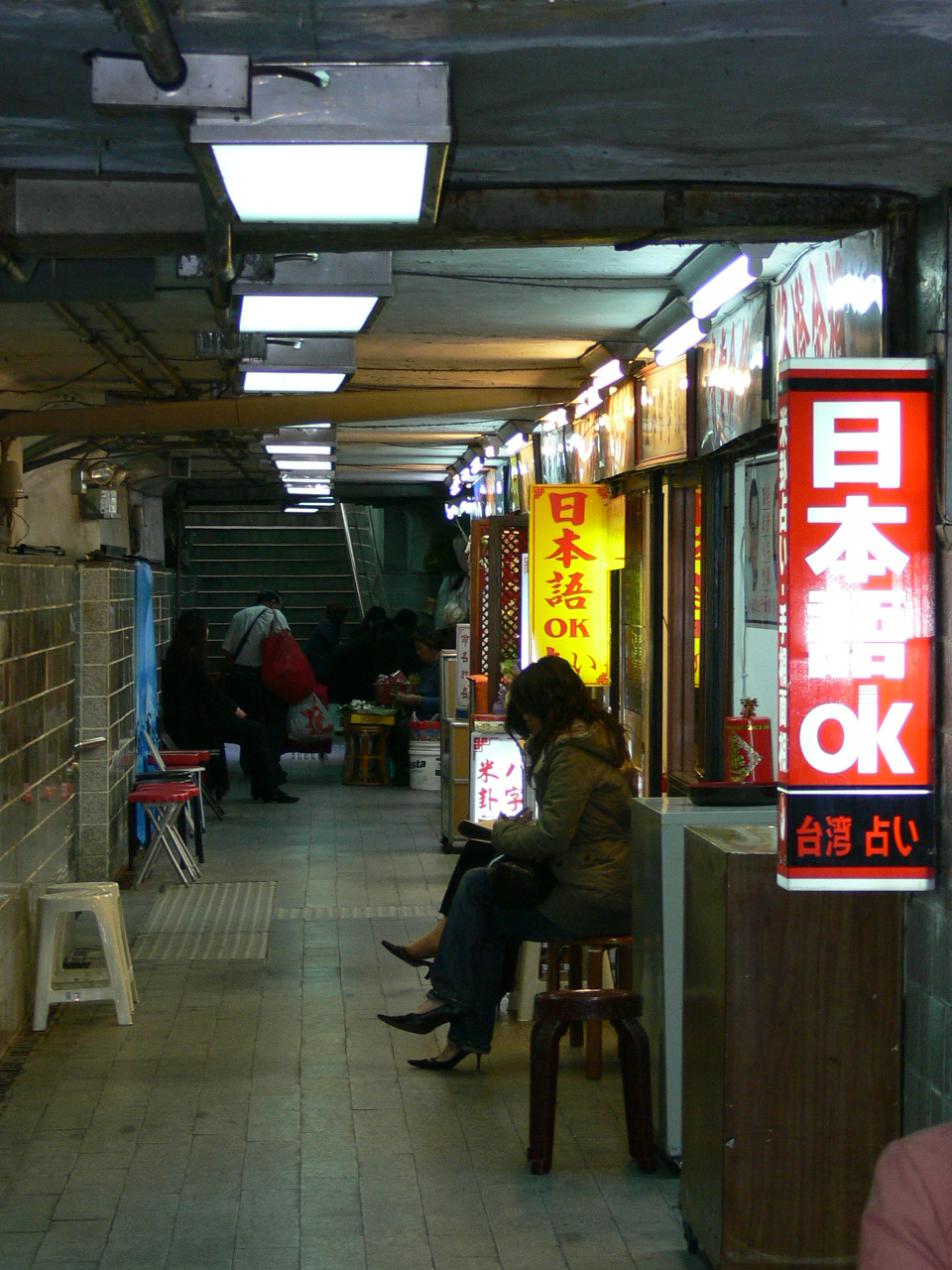 "The Street of Fortune Telling" in Songjiang-Minquan Underground Passage near Hsing Tian Kong.